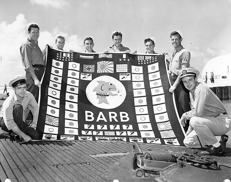 Official US Navy Photo #NH-103570 Caption: USS Barb (SS-220) Members of the submarine's demolition squad pose with her battle flag at the conclusion of her 12th war patrol. Taken at Pearl Harbor, August 1945. During the night of 22-23 July 1945 these men went ashore at Karafuto, Japan, and planted an explosive charge that subsequently wrecked a train. They are (from left to right): Chief Gunners Mate Paul G. Saunders, USN; Electricians Mate 3rd Class Billy R. Hatfield, USNR; Signalman 2nd Class Francis N. Sevei, USNR; Ships Cook 1st Class Lawrence W. Newland, USN; Torpedomans Mate 3rd Class Edward W. Klingesmith, USNR; Motor Machinists Mate 2nd Class James E. Richard, USN; Motor Machinists Mate 1st Class John Markuson, USN; and Lieutenant William M. Walker, USNR. This raid is represented by the train symbol in the middle bottom of the battle flag.